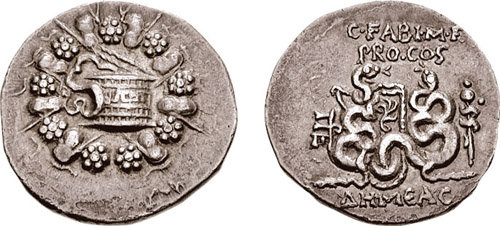 MYSIA, Pergamon. C. Fabius M.f. Hadrianus, Proconsul. 57-56 BC. AR Cistophoric Tetradrachm (12.41 gm, 12h). Demeas, magistrate. Cista mystica within ivy wreath / C. FABI. M. F. PRO. COS, bow case between two serpents; monogram to left, thyrsos to right, DHMEAC below. Stumpf 28; SNG France 1759 var. (same obverse die, different magistrate); BMC Mysia -; SNG Copenhagen -; SNG von Aulock 7485 var. (same); Voegtli, "Zwei Münzfunde aus Pergamon," SNR 69, pg. 47, 63-64. Good VF, attractively toned, choice flan. Rare. ($750) From the Garth R. Drewry Collection. Ex Classical Numismatic Group 39 (18 September 1996), lot 929; J. Schulman 264 (26 April 1976), lot 5143.